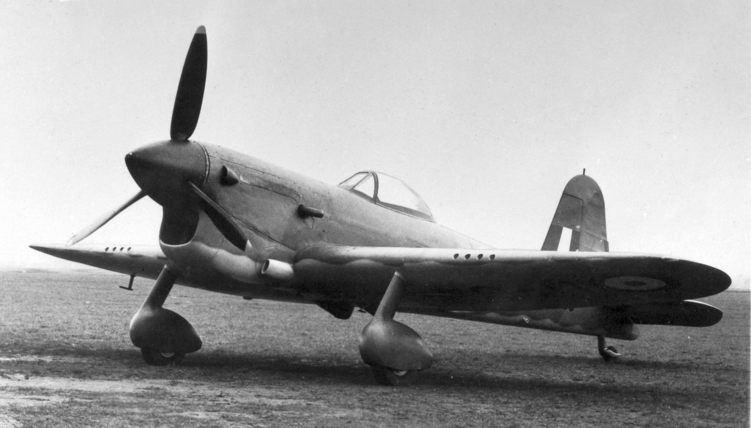 Image from the Charles Daniels Photo Collection album "British Aircraft." SOURCE INSTITUTION: San Diego Air and Space Museum Archive